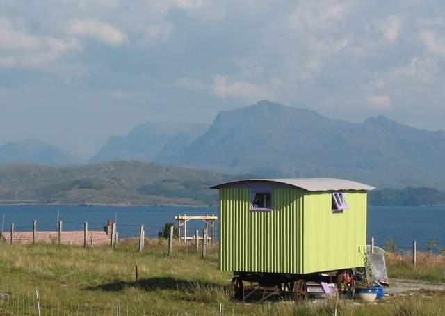 The 'Shepherd's Hut' (wagon). A mobile gift and craft shop close to the road through Midtown on the western shore of Loch Ewe.